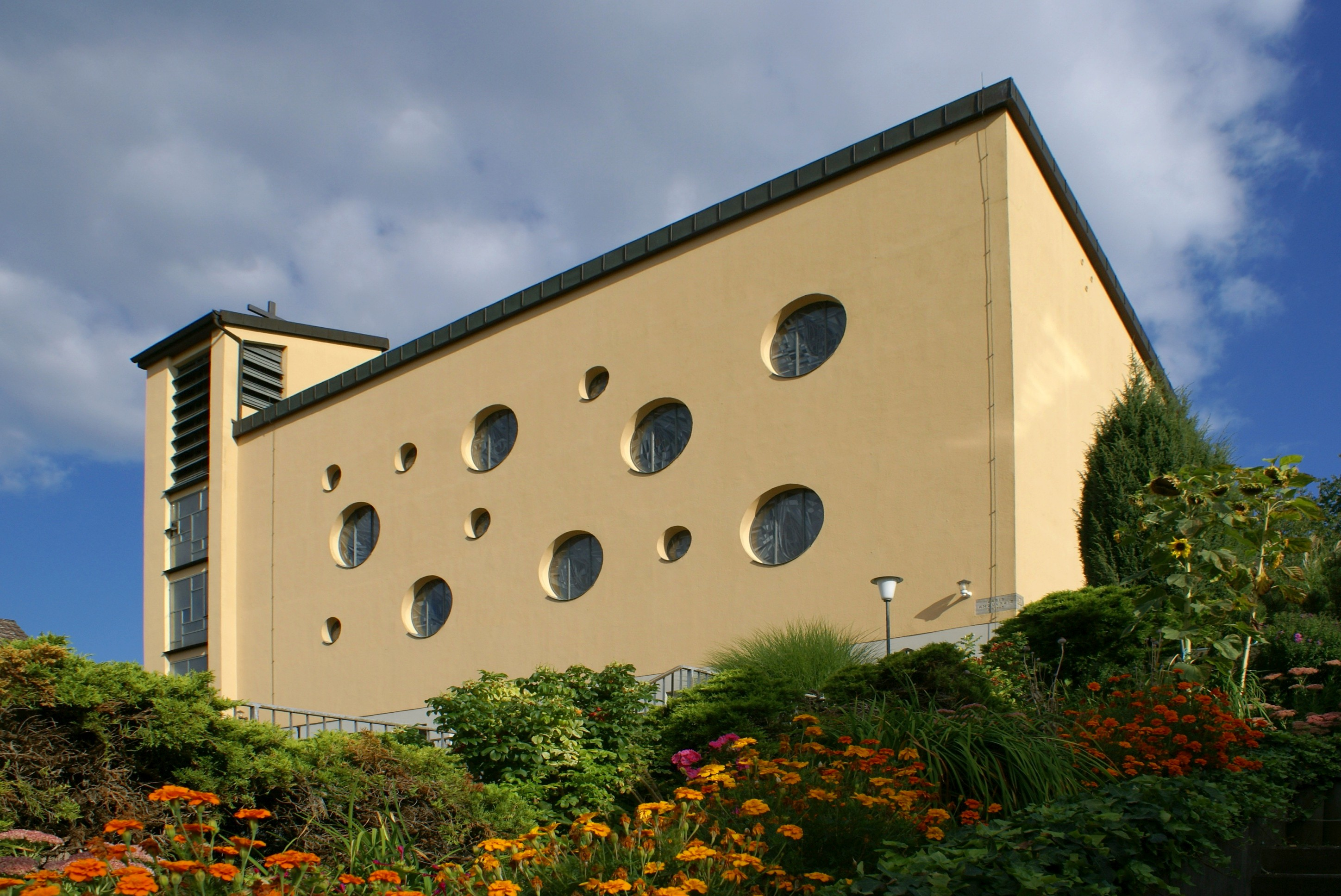 The dominating western side of the church named Heilig-Geist-Kirche determines the view from the main road through the village Dörnsteinbach